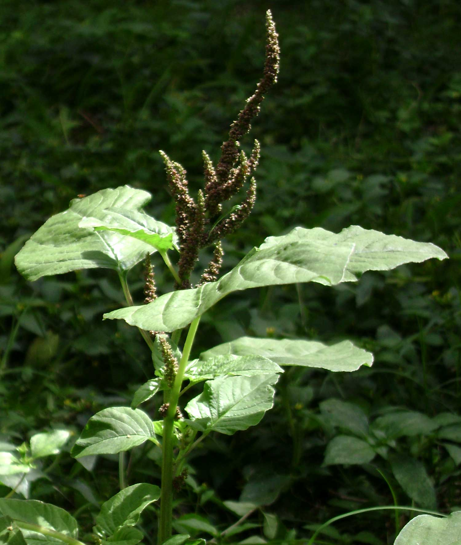 Amaranthus viridis; (tupuʻa) a weed in a Tongan garden